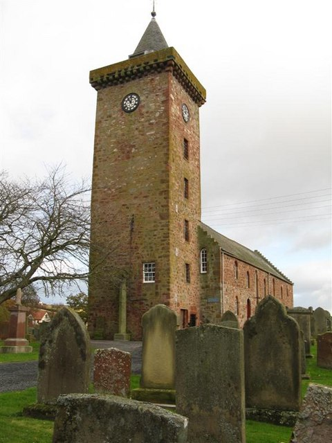 Greenlaw Church. For more information see 191009.